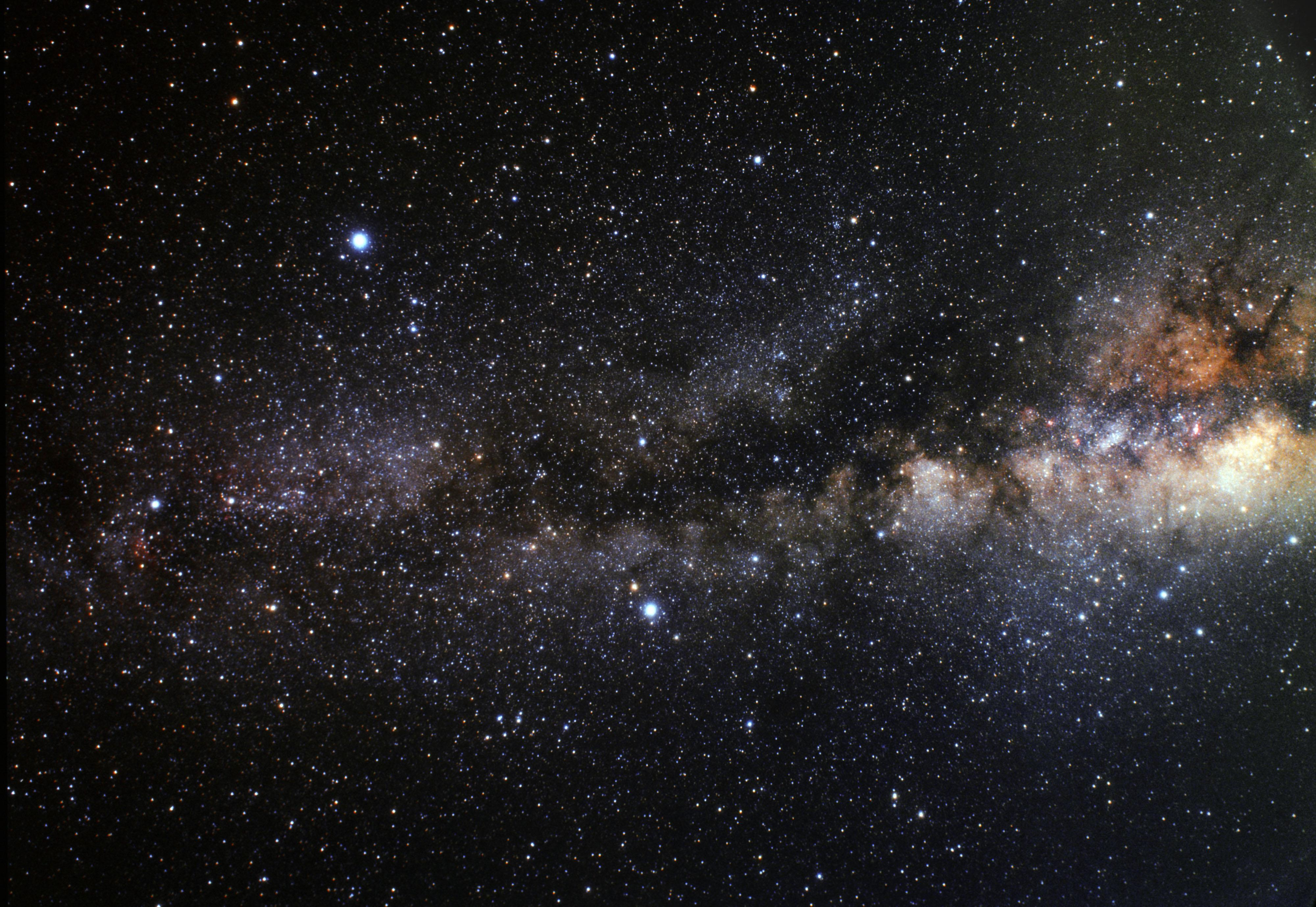 Thick dust clouds block our night-time view of the Milky Way, creating what is sometimes called the Dark Rift. Thick dust clouds also populate the galaxy. And while infrared telescopes can see them clearly, our eyes detect these dark clouds only as irregular patches where they dim or block the Milky Way's faint glow. The most prominent dark lane stretches from the constellations Cygnus to Sagittarius and is often called the Great Rift, sometimes the Dark Rift.